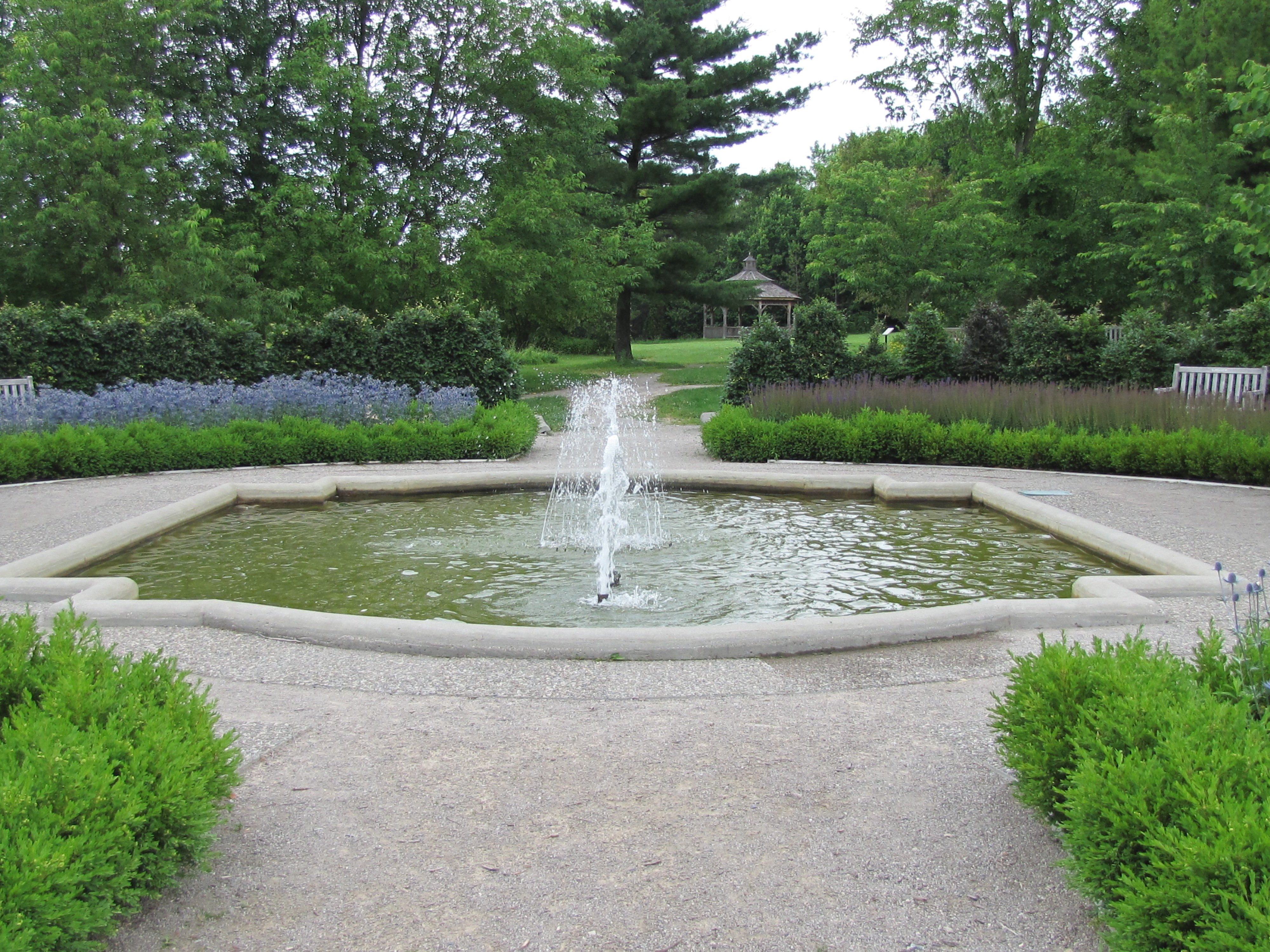 Fountain in the park in the garden in the Guelph Arboretum